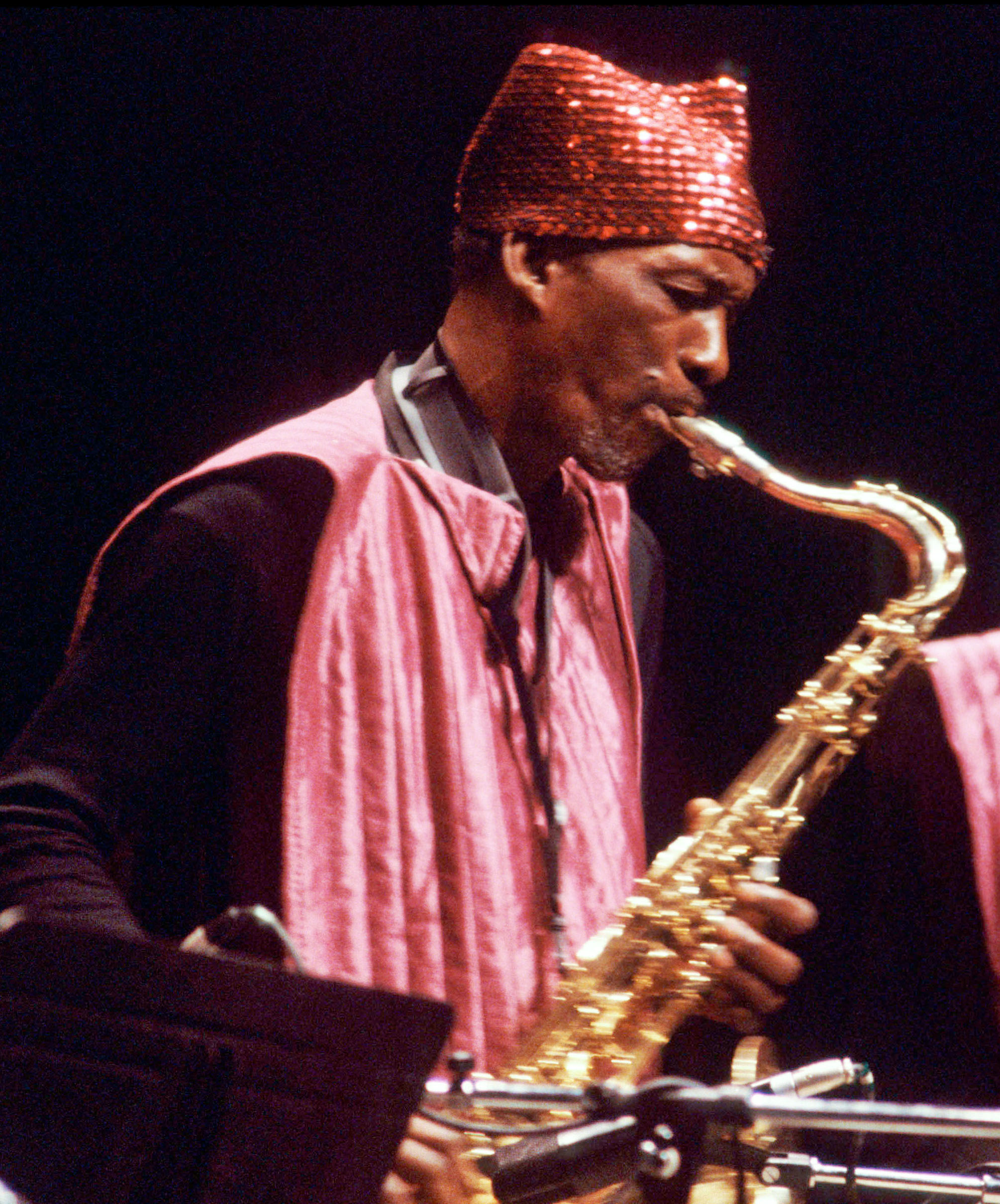 John Gilmore with the Sun Ra Arkestra in Ann Arbor1986.